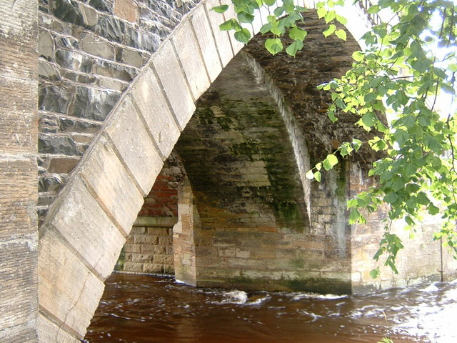 Evolution of the Tweed bridge The narrow original bridge was widened in 1834 and subsequently doubled in width by extension of the eastward side in 1900.